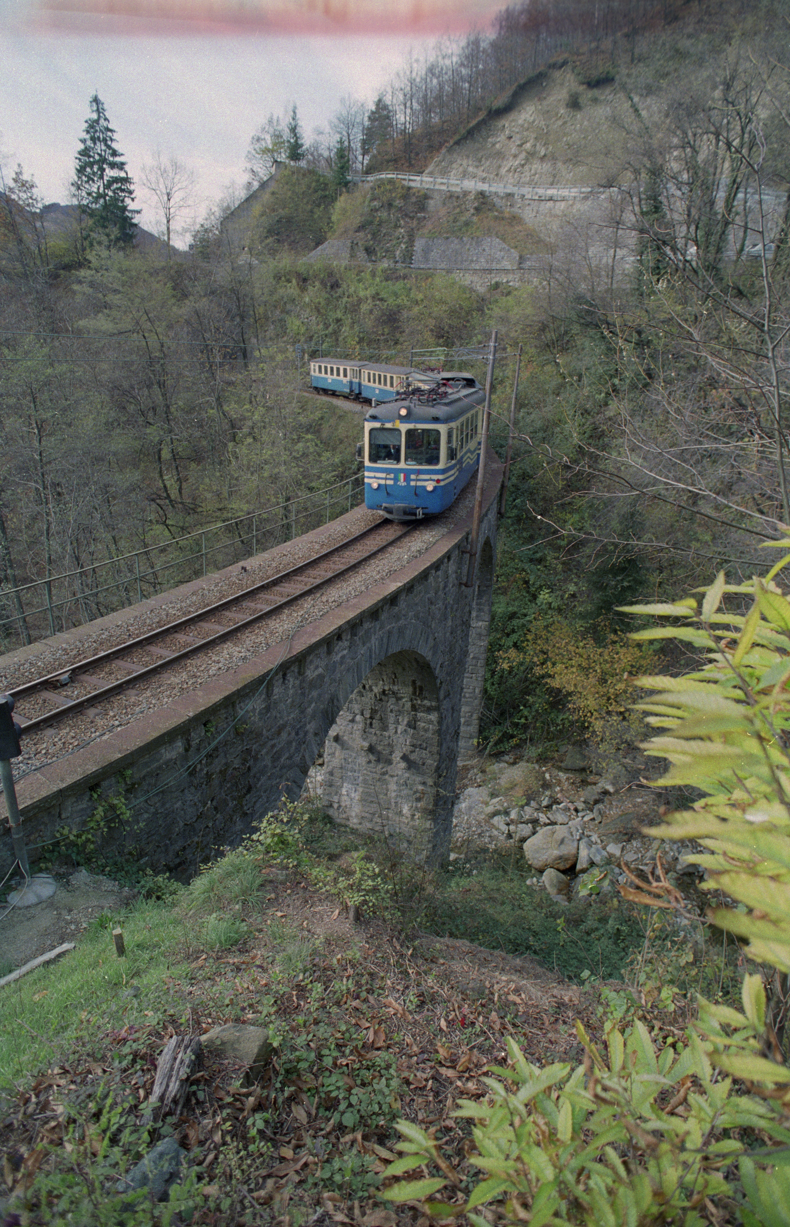 SSIF ABe 8/8 21 passing the Segna viaduct west of Verdasio railway station.